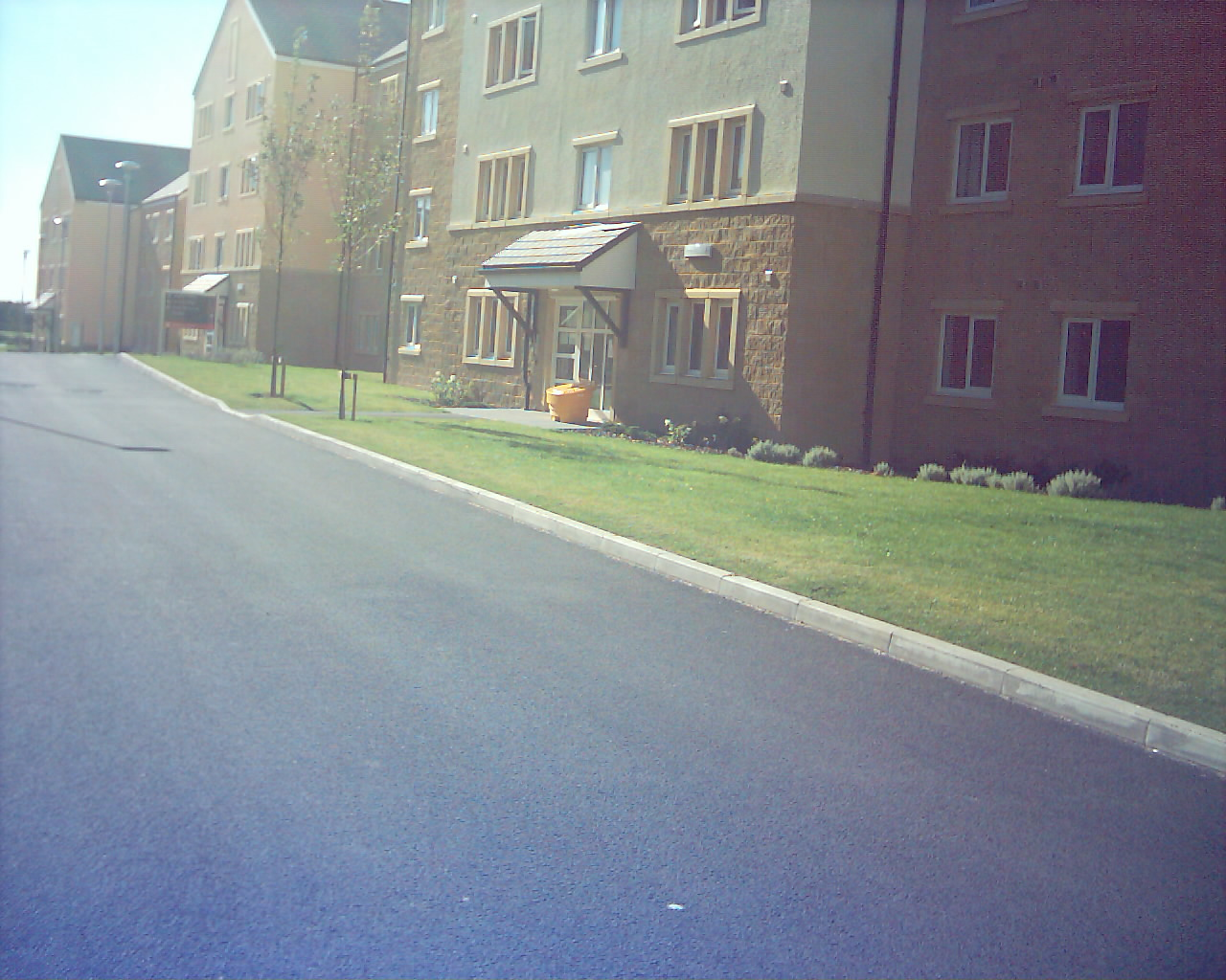 Lonsdale College, Lancaster University. Taken by myself.